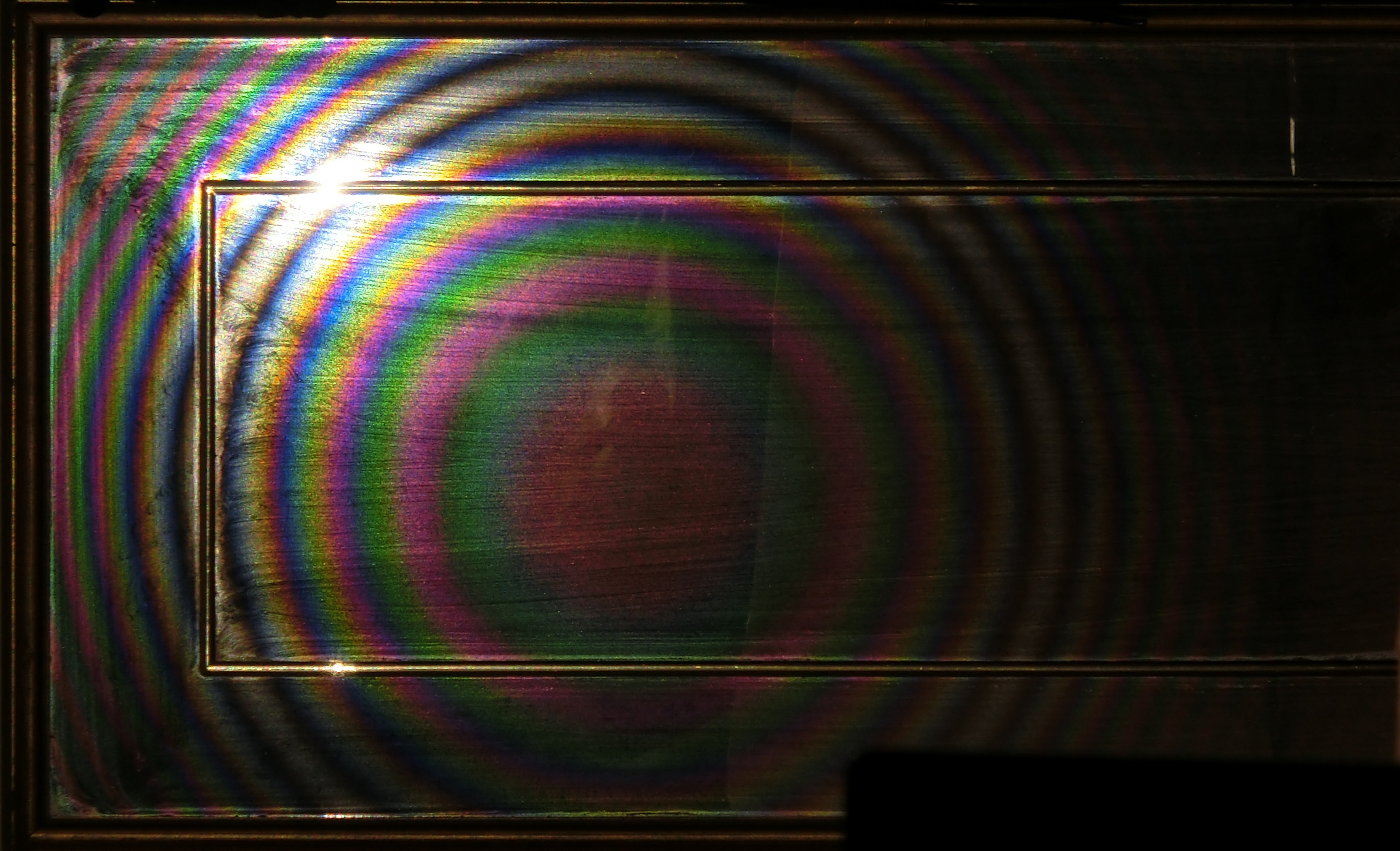 Quetelet rings on a dusty mirror as seen by a camera with a flash light to the bottom and right from the camera and approximately twice as close to the mirror as the camera.